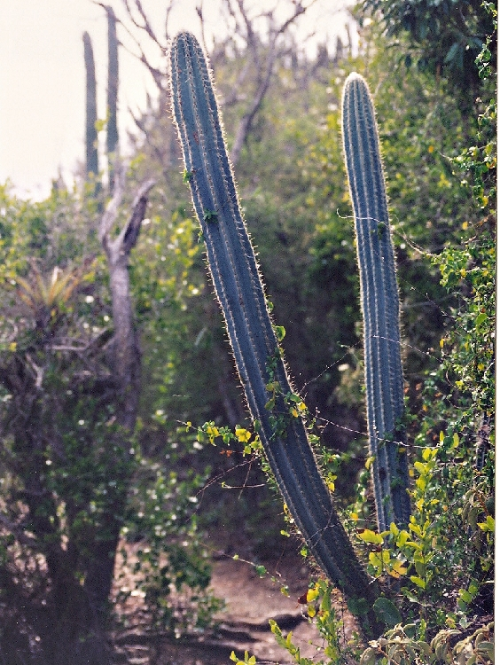 Pilosocereus royenii. Royen's tree cactus growing beside a salt pond. Florida.